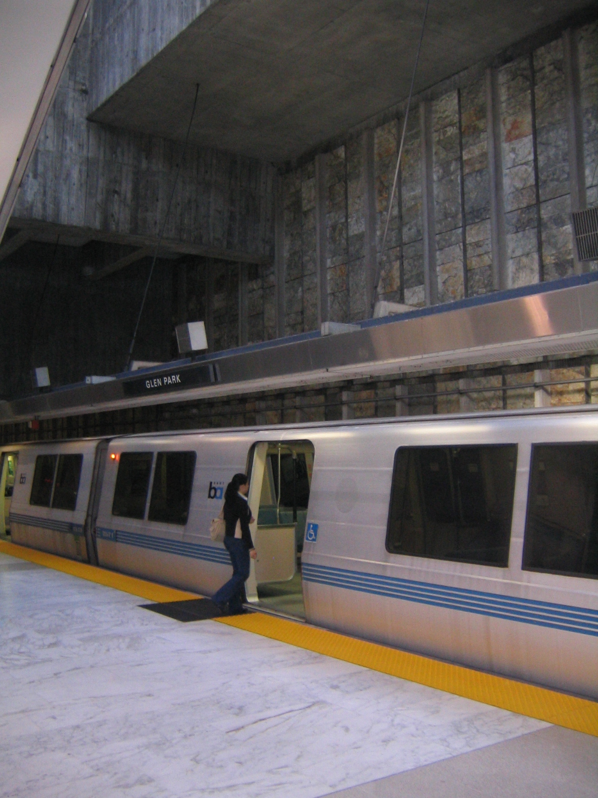 Platform of the Glen Park Station